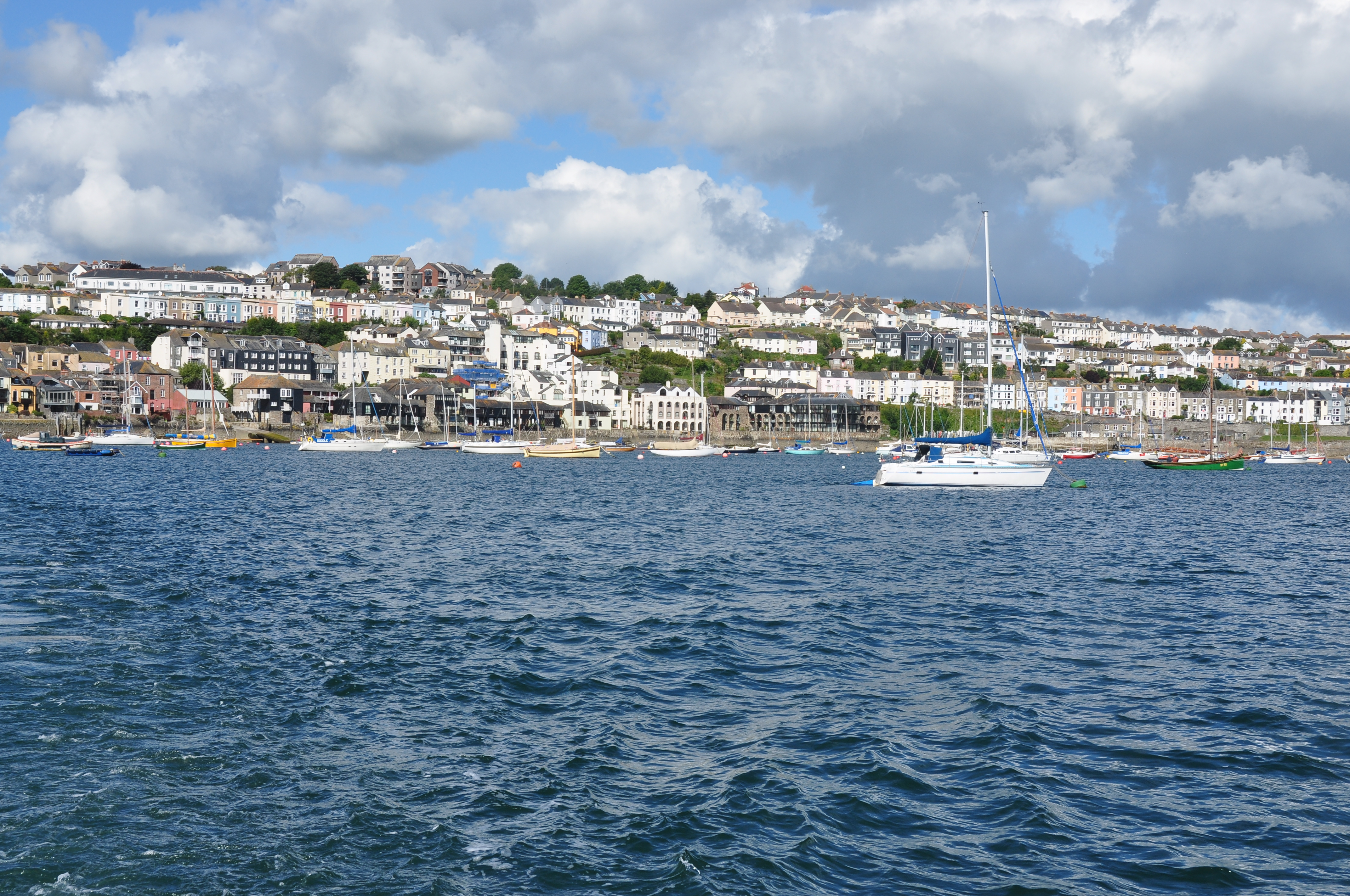 Boats in Falmouth inner habour